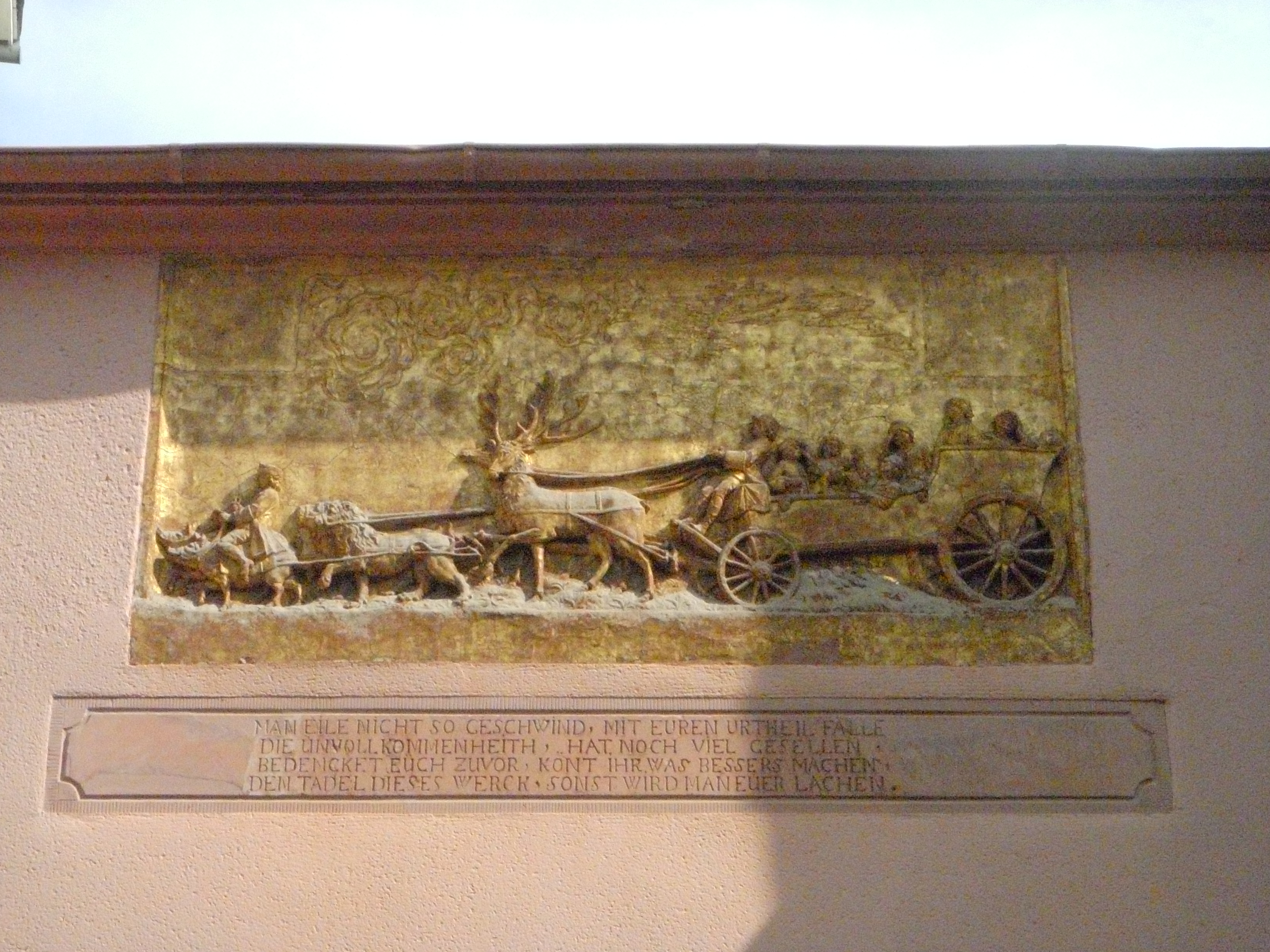 Former 'Zuchthaus', Mainz, Germany